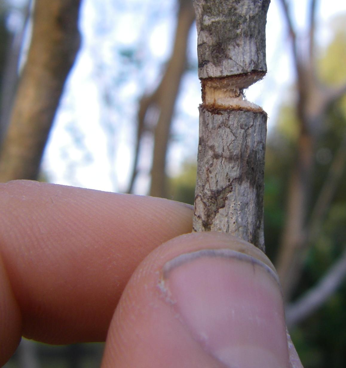 results of the Twig Girdler beetle, with scale